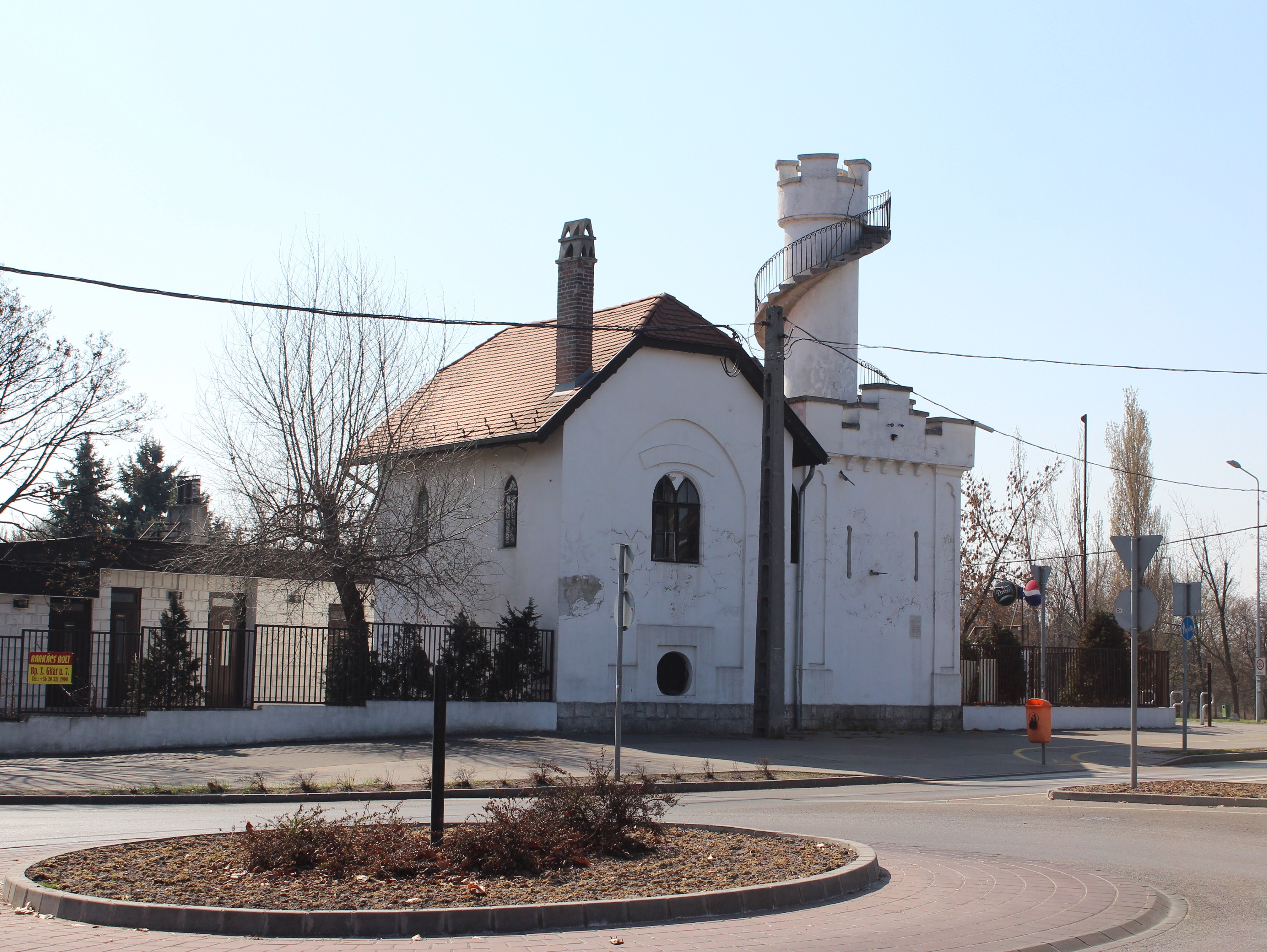 Csősztorony in Budapest District X